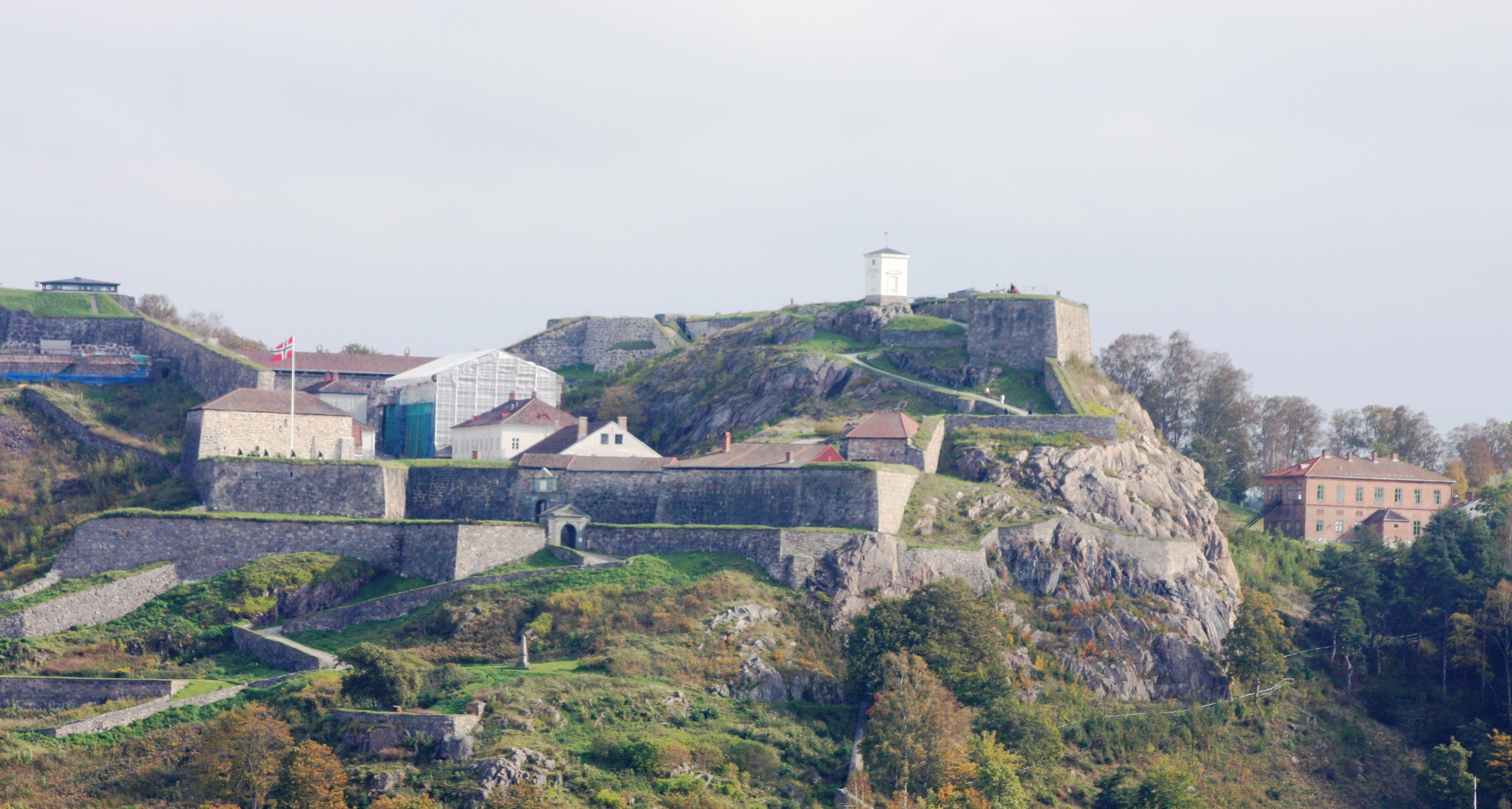 Halden - Fredriksten festning (Fredriksten Castle) seen from Röd Herregaard. Halden, Norway